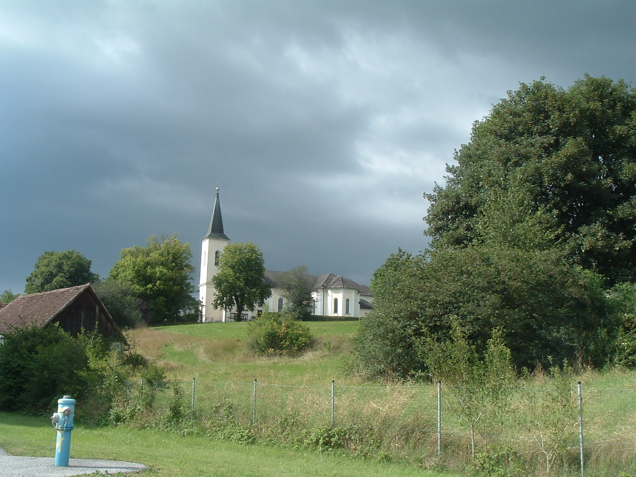 Kirchfidisch (Egyházasfüzes), Burgenland